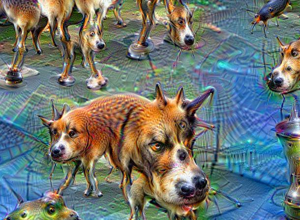 50 iterations of applying DeepDream